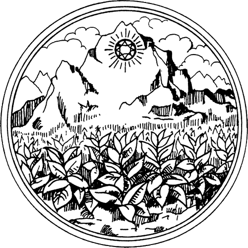 Provincial seal of Phetchabun province.